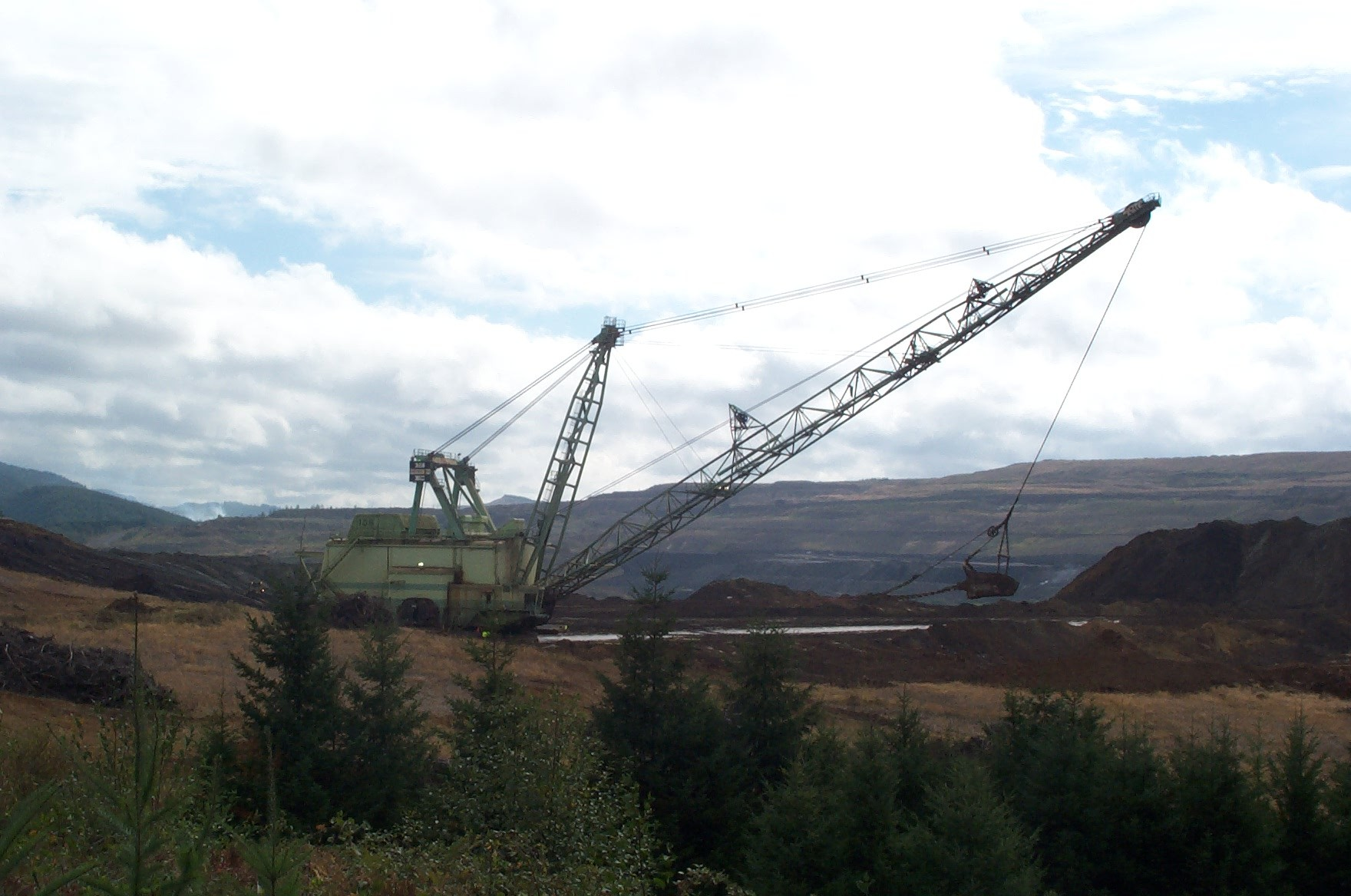 Digital photograph of a dragline at the TransAlta Centralia Mining.